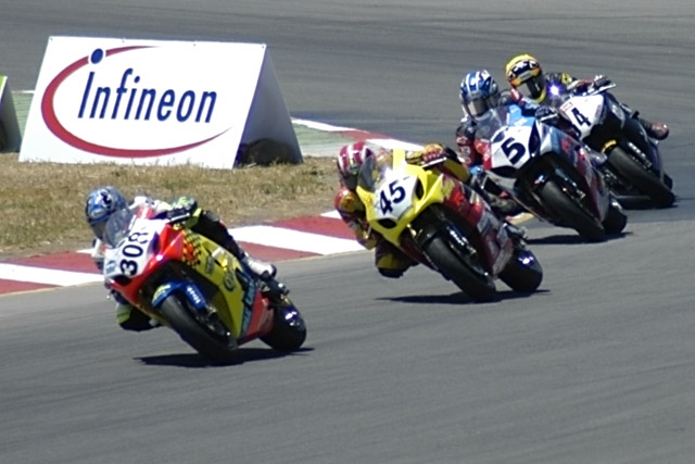 Motorcycle racing - Infineon Raceway, AMA Superbike Challenge 2004 Downloaded from : [1] Credits : Dennis Mojado